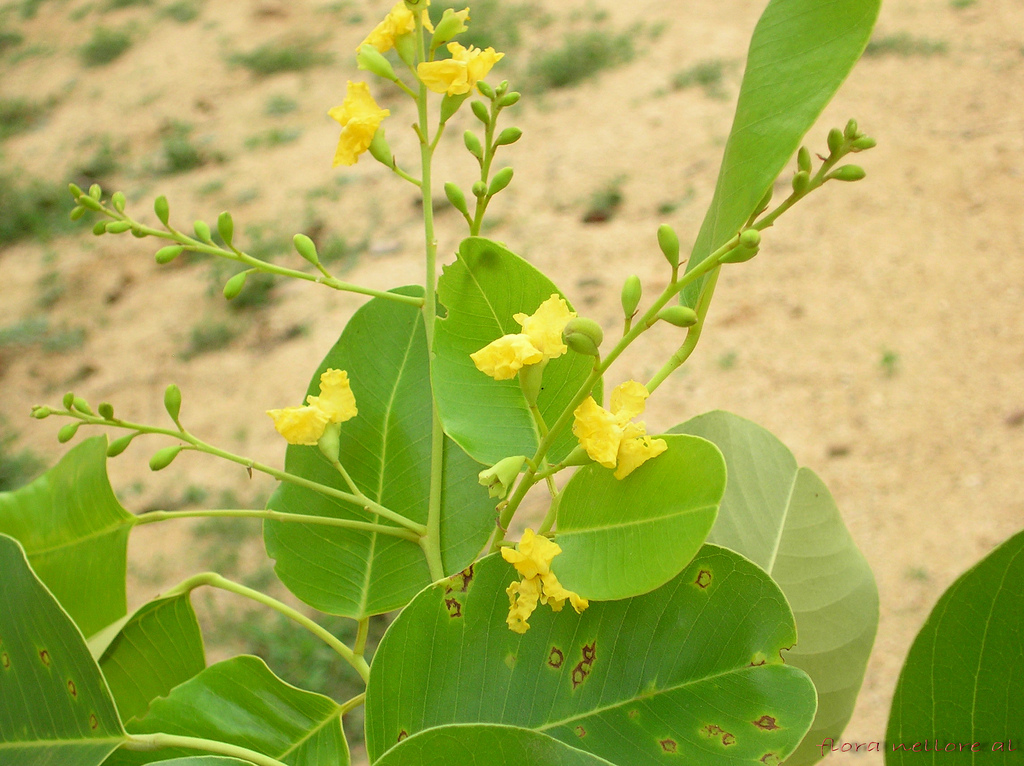 Family: Fabaceae; Pterocarpus santalinus Local names: (Telugu) Erra chandanm and Rakta chandanam; (English) Red Sanders Photographed at Velugonda Hills of the Eastern Ghats. Found in rock crevices of the hilly area. Distribution: Found only in a limited area. Endemic to southern parts of Eastern Ghats of Peninsular India. Moderate sized tree. Bark blackish-brown,deeply cleft in to rectangular plates, wood extremely hard, reddish black. Leaves alternate, 1-3 foliate,coriaceous,leaf-lets ovate-orbicular. Flowers: yellow in terminal racemes or panicles. Calyx short, companulate, sub connate, curved; Corolla 5, standard orbicular, crisped, wings oblique, keels small and oblique; stamens 10, in two bundles of 5 each, ovary sessile, 2-6 ovuled; Pod with a broad wing, compressed, orbicular. This plant is on the IUCM Red List, as an endangered plant by BSI and IUCN; As the wood is highily valuable the plants are decreased in number in wild. Included in Appendix II of CITES . Trade of wood, logs, powder and extracts is a punishable crime.